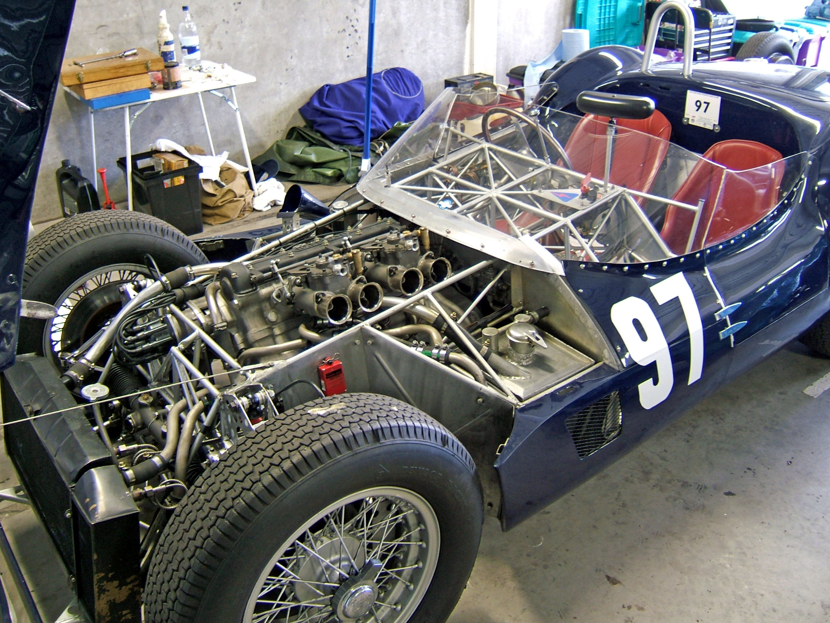 The engine bay of a Maserati Tipo 61 sports car, clearly showing the intricate network of steel tubes which gave the type its "Birdcage" nickname. In the pit garages during the VSCC SeeRed race meeting, Donington Park, September 2007.